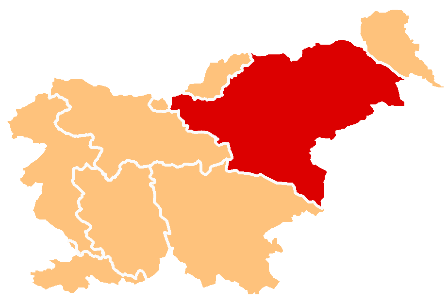 One of the maps of Slovene traditional regions (Slovene lands) in present-day Slovenia